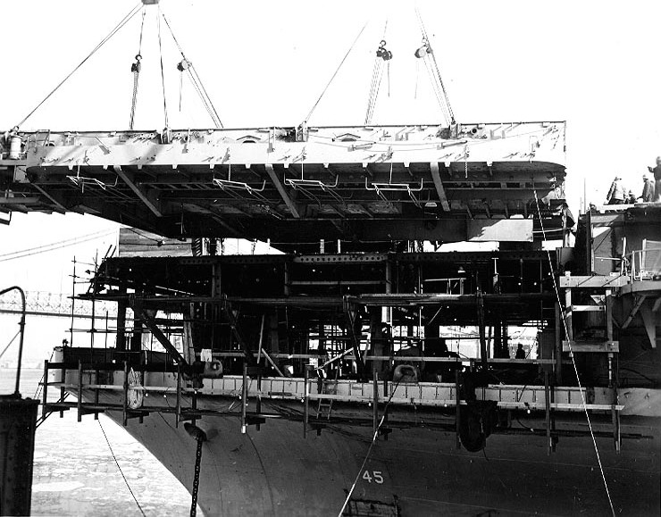 Forward port portion of the flight deck of USS Franklin (CVS-13) is hoisted into place on the Valley Forge.